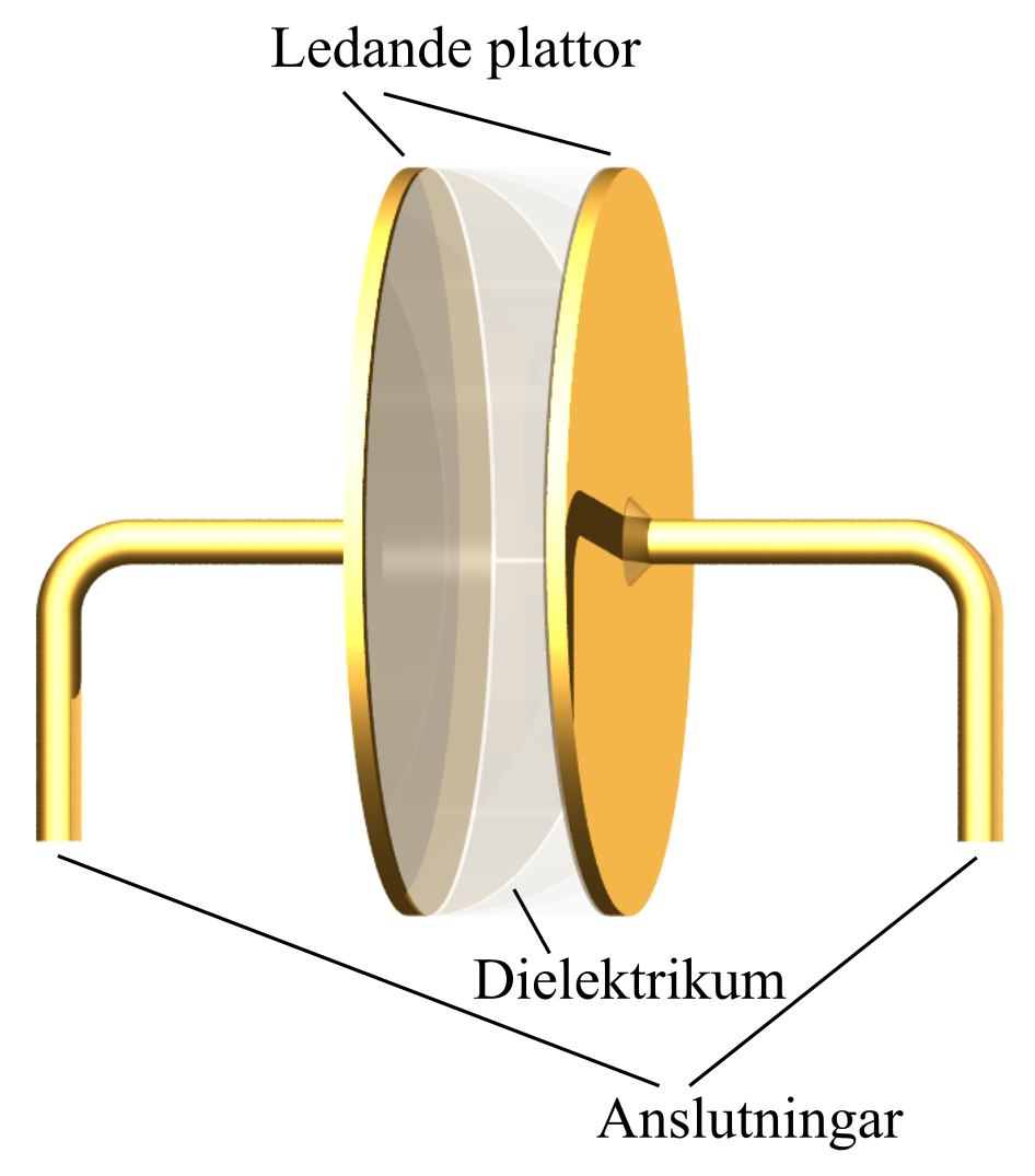 Capacitor, princip